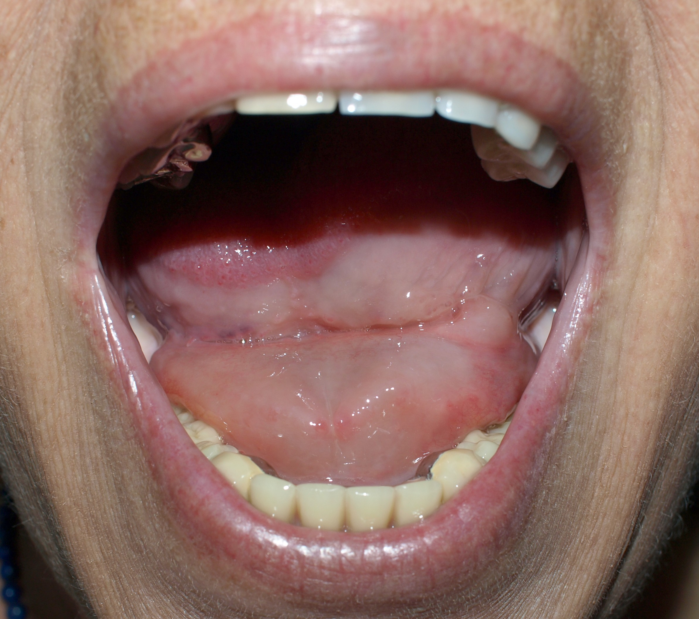 Ranula (55-year-old woman)